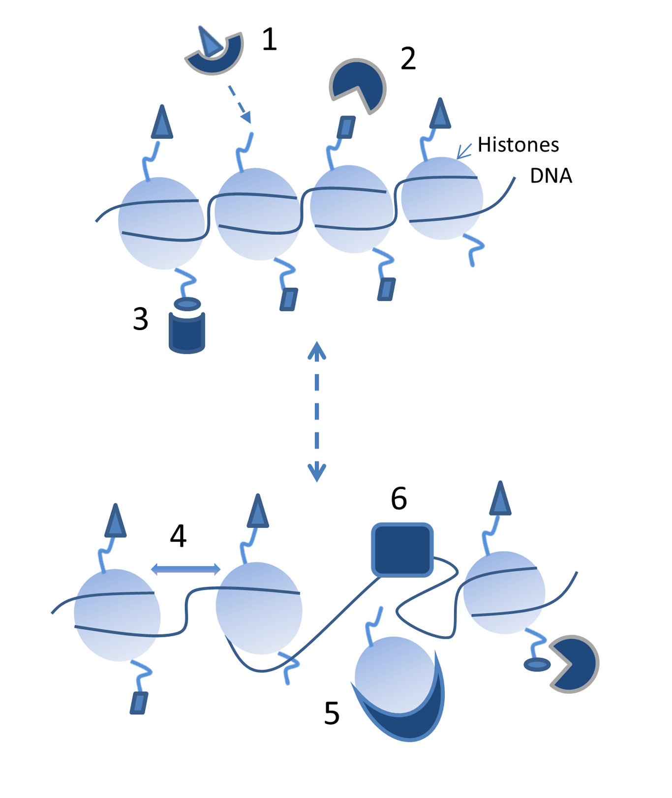 Chromatin structure and binding proteins can affect transcription through multiple avenues. Chemical additions can be made to histones by chromatin-modifying enzymes such as Set1, which adds methyl groups to a specific place on the histone (1); many of these chemical modifications can be removed by other proteins (2). Some proteins bind to specific modifications on histones that have been added (3). Nucleosome spacing (4) can be altered by chromatin remodelers that use the power of ATP to drive movement and histone chaperones (5) can remove and replace histones on DNA. All of these factors can control access of the DNA and chromatin to other factors, such as transcription factors that may need to bind open pieces of DNA (6). This is a dynamic process requiring many proteins to act in concert as appropriate.